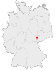 Position of Gera in Germany